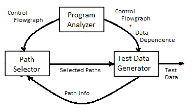 A model for how test data is generated